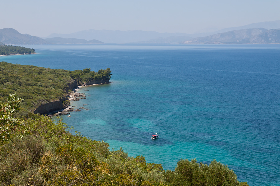 taken in Dilek Peninsula National Park